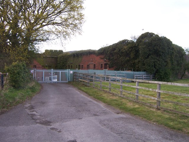 Fort Wallington 1 Another of the ring of huge forts defending Portsmouth and Gosport. This one is an industrial estate. Some of the walls and internal buildings have been demolished to make way for modern industrial units.